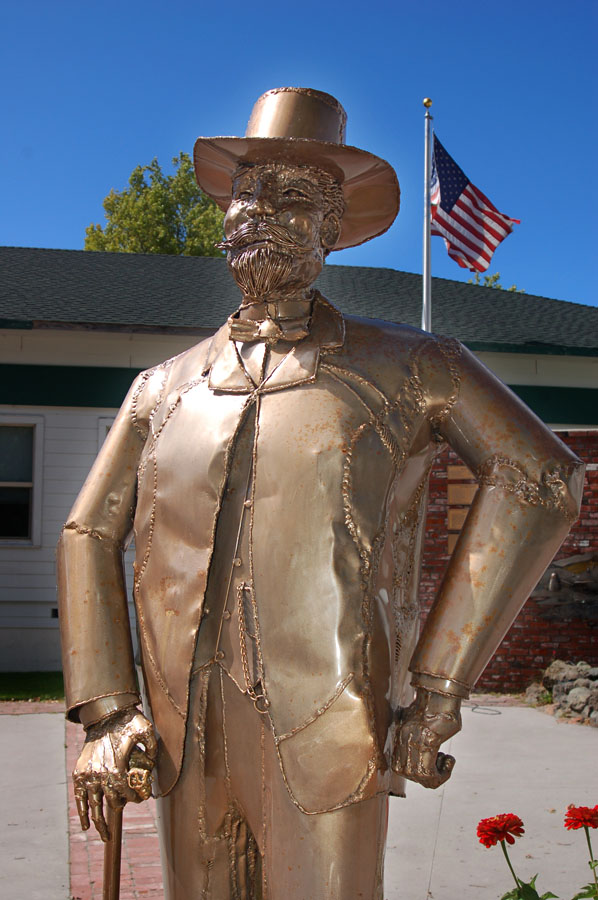 Statue of Abner Weed - founder of the City of Weed in northern California. Located at 550 Main Street, Weed's Centennial Plaza was constructed with bricks salvaged from Abner Weed's old sawmill. The statue was built by local artist Ralph Starritt in 2001. Abner Edward Weed (September 18, 1842, in Dixmont, Maine– June 14, 1917 in Weed, California) served as a soldier in the American Civil War with Company C, 8th Maine Infantry Regiment, and was present at Appomattox, Virginia, to witness Lee's surrender to Grant. On September 18, 1866, he married Rachel C. Cunningham, and came to California in 1869, locating in Truckee. Between 1869-1889, he was actively engaged in the development of the country between Truckee and Sierraville. In 1889, he moved with his family to Mount Shasta where he was actively engaged in industry and important developments of Siskiyou County. He was the founder of the mammoth Weed holdings at Weed, and the builder of the Hotel Weed in Dunsmuir, California, which bears his name. He built and sold the S.P. Co. thirty miles of railroad from Weed to Grass Lake in 1902, and in 1904 sold his immense holdings at Weed to R.A. Long of Kansas City, Mo. Besides this he accumulated large property interests in Oregon, Scott Valley and near Stockton. He served this district as Senator during the years of 1907-1909, and was Siskiyou county supervisor for eight years.